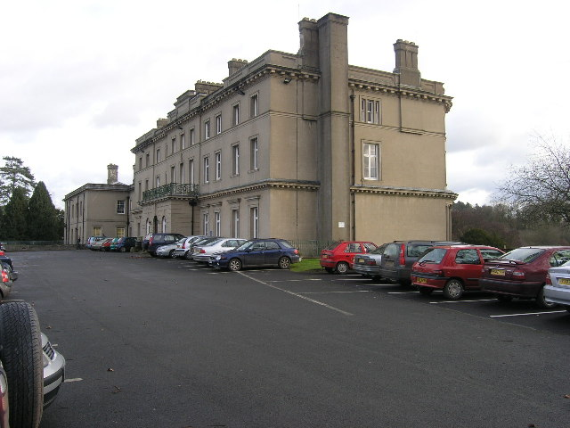 Llanarth Court. The mansion is now the administration block for this private hospital.